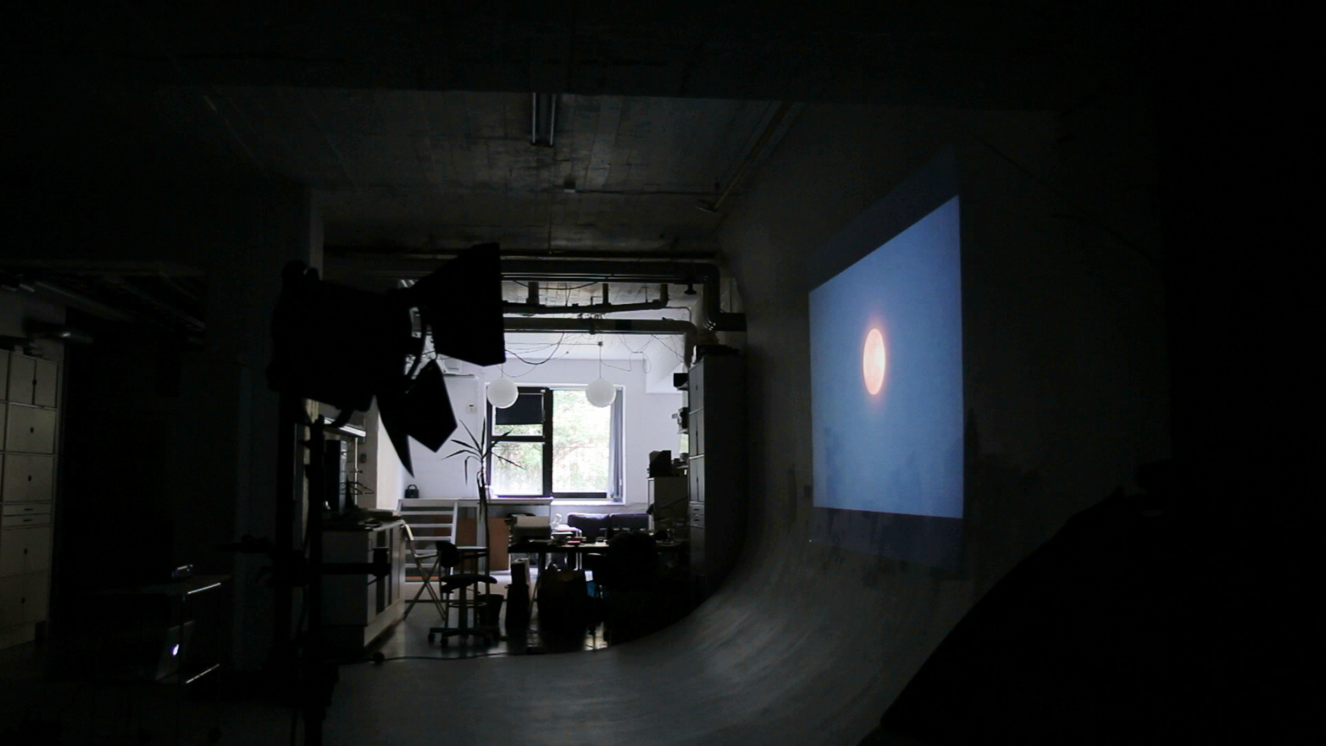 Model of Continuation HD-video, 24 min, colour, sound and mute.